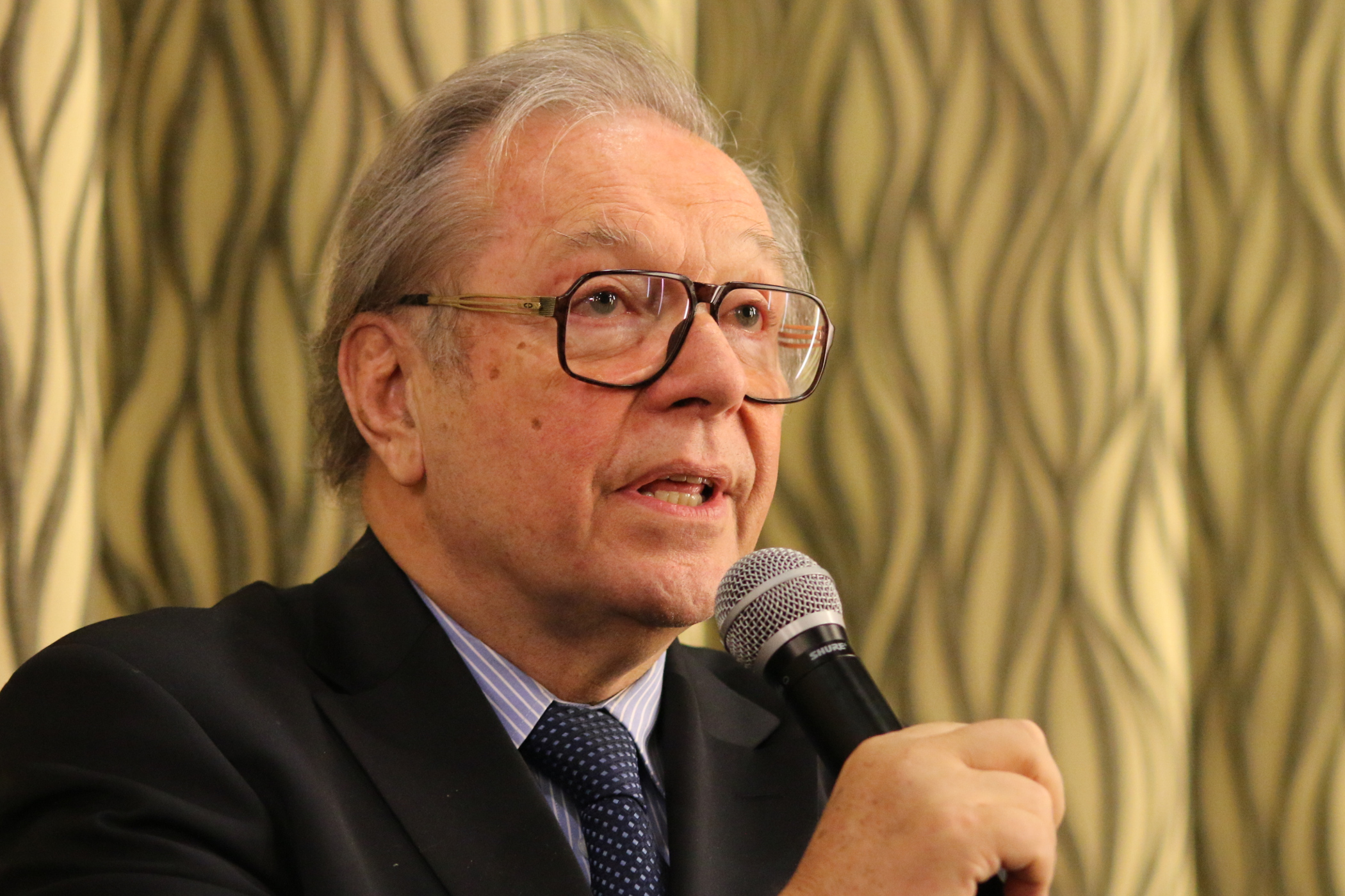 GoEast Film Festival 2014, Wiesbaden: Krzysztof Zanussi, Director from Croatia